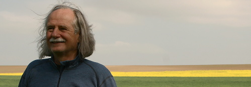 Jan Ságl photographer